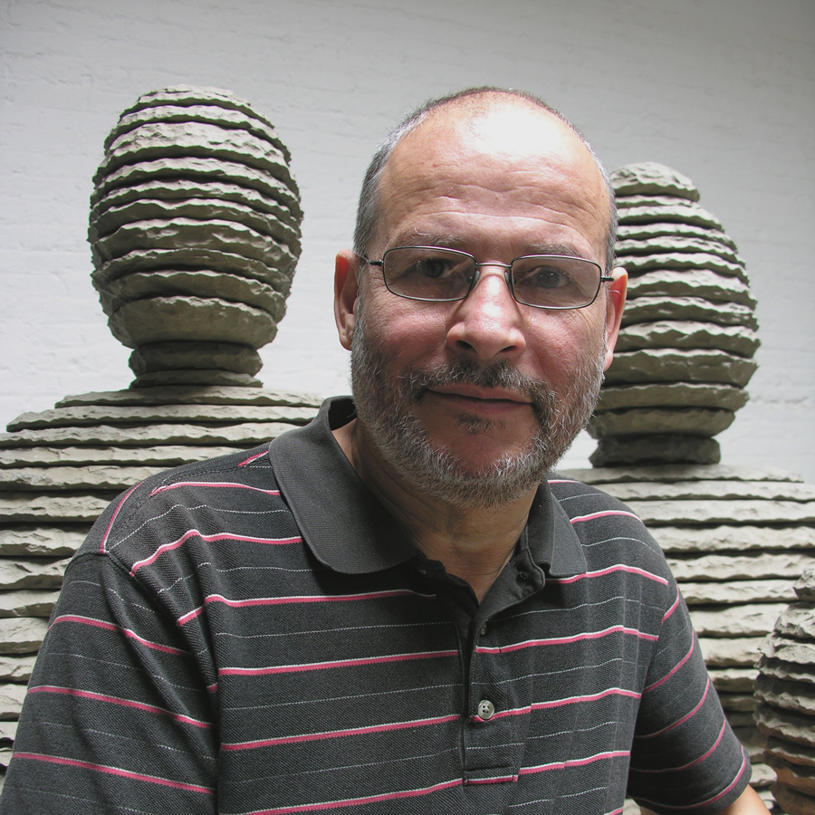 Portrait of Boaz Vaadia